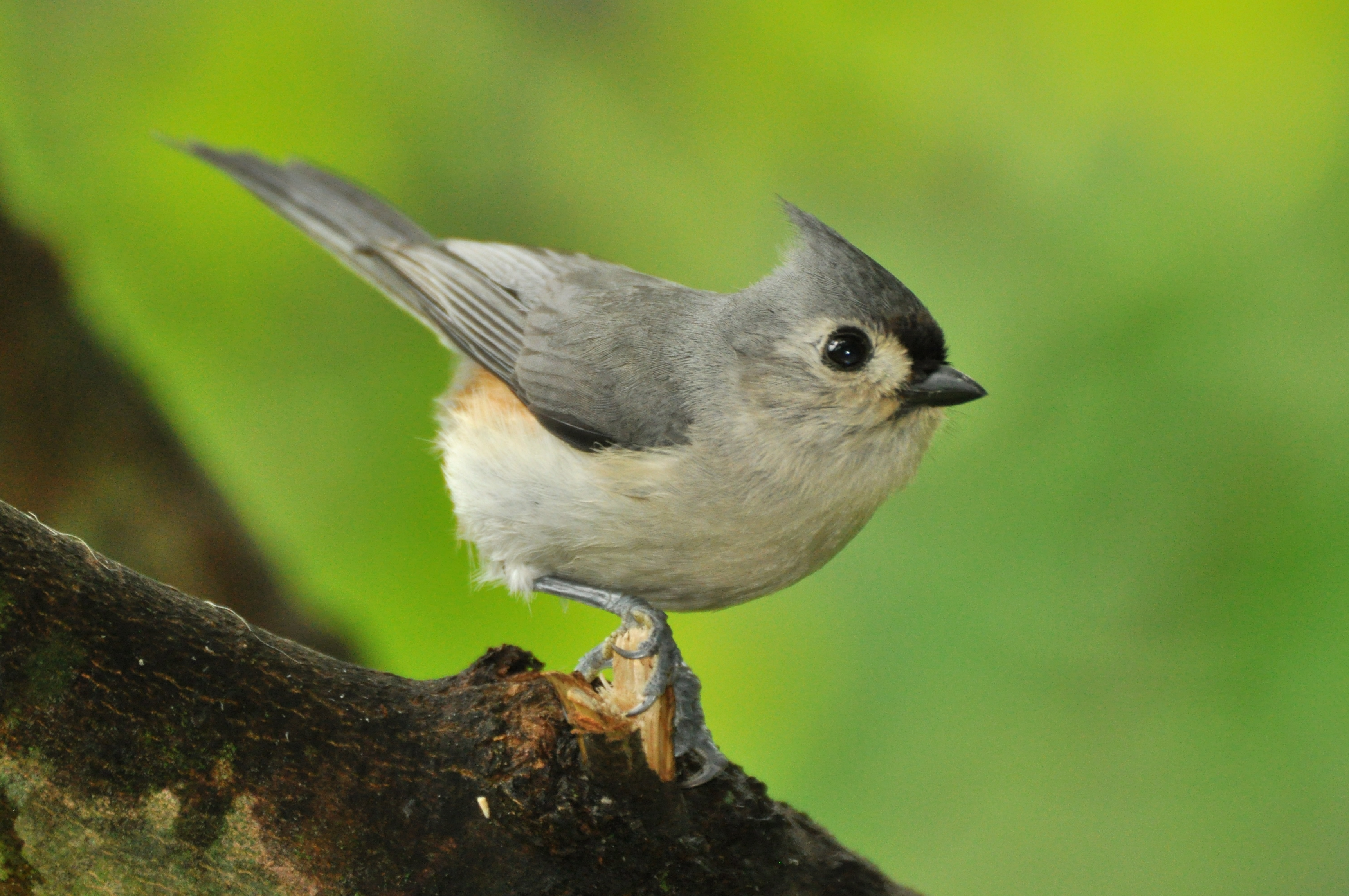 Tufted Titmouse, West Road